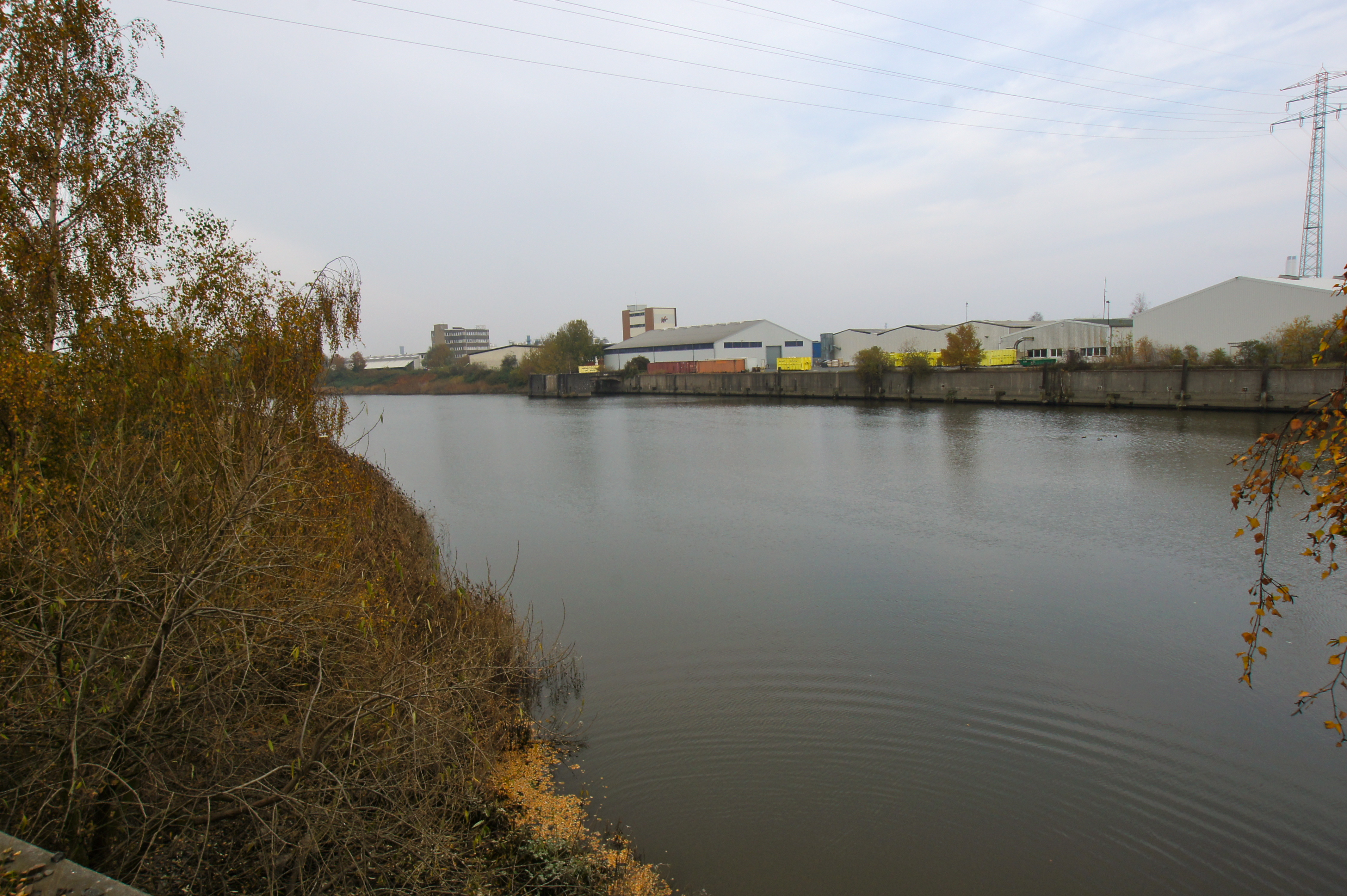 Hamburg (Veddel), Germany: The east end of the Hovekanal